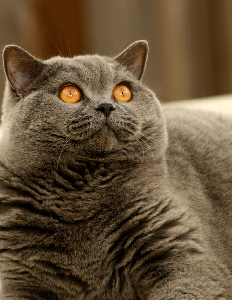 Boris blue British Shorthair